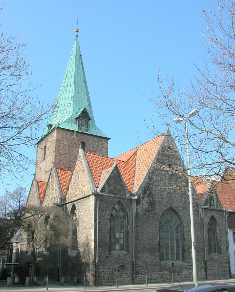 Braunschweig, Germany: St. Michael’s as seen from the southeast.